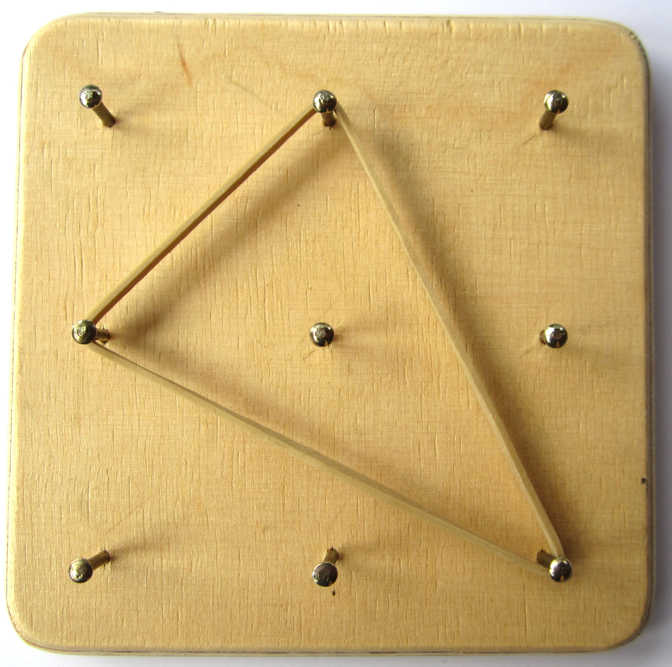 A 3 X 3 wooden geoboard with triangle made with elastic band